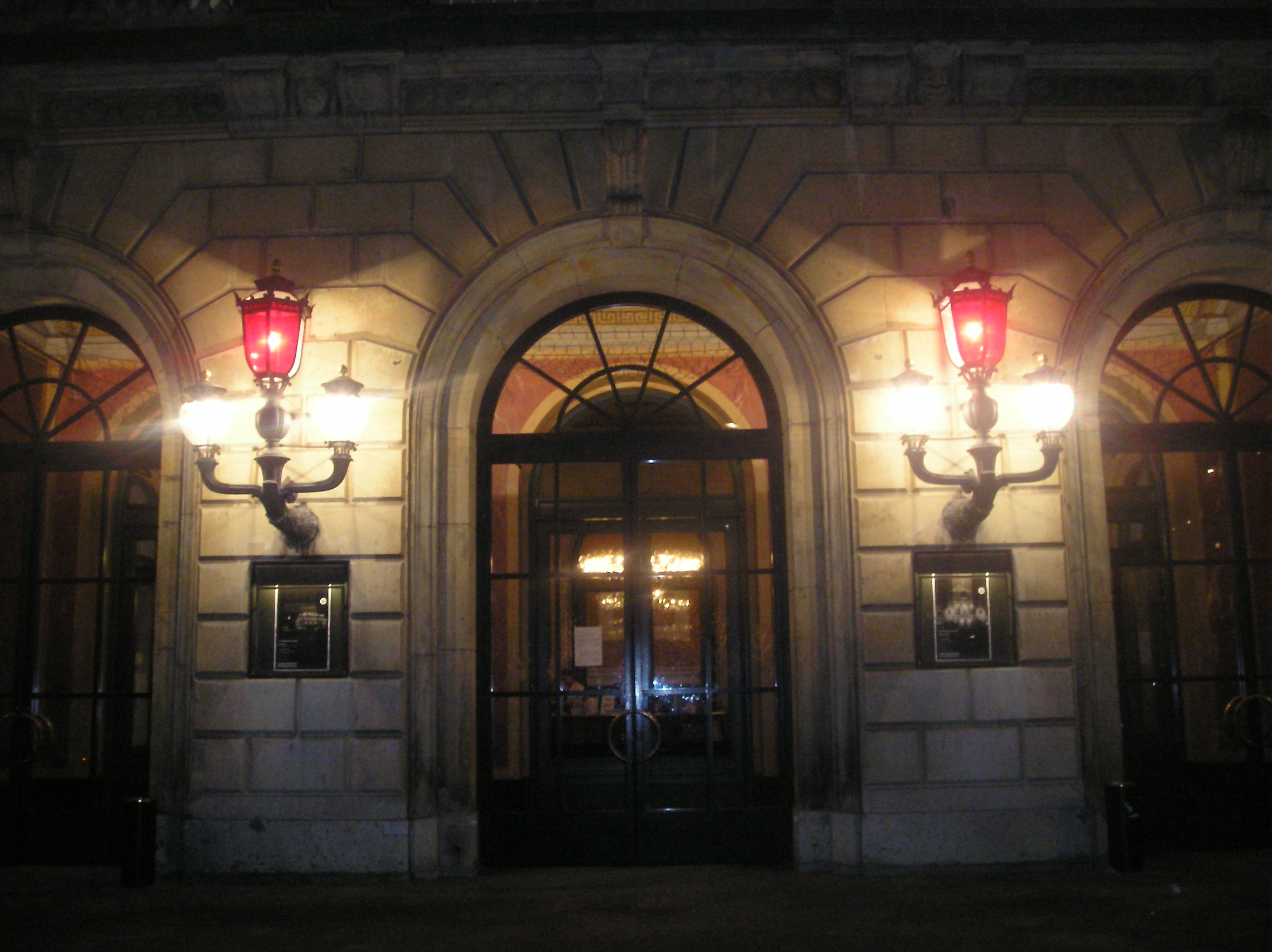 Det Kongelige Teater (Royal Danish Theatre) at Kongens Nytorv in Copenhagen has the red lanterns out to show that everything is sold out this evening.